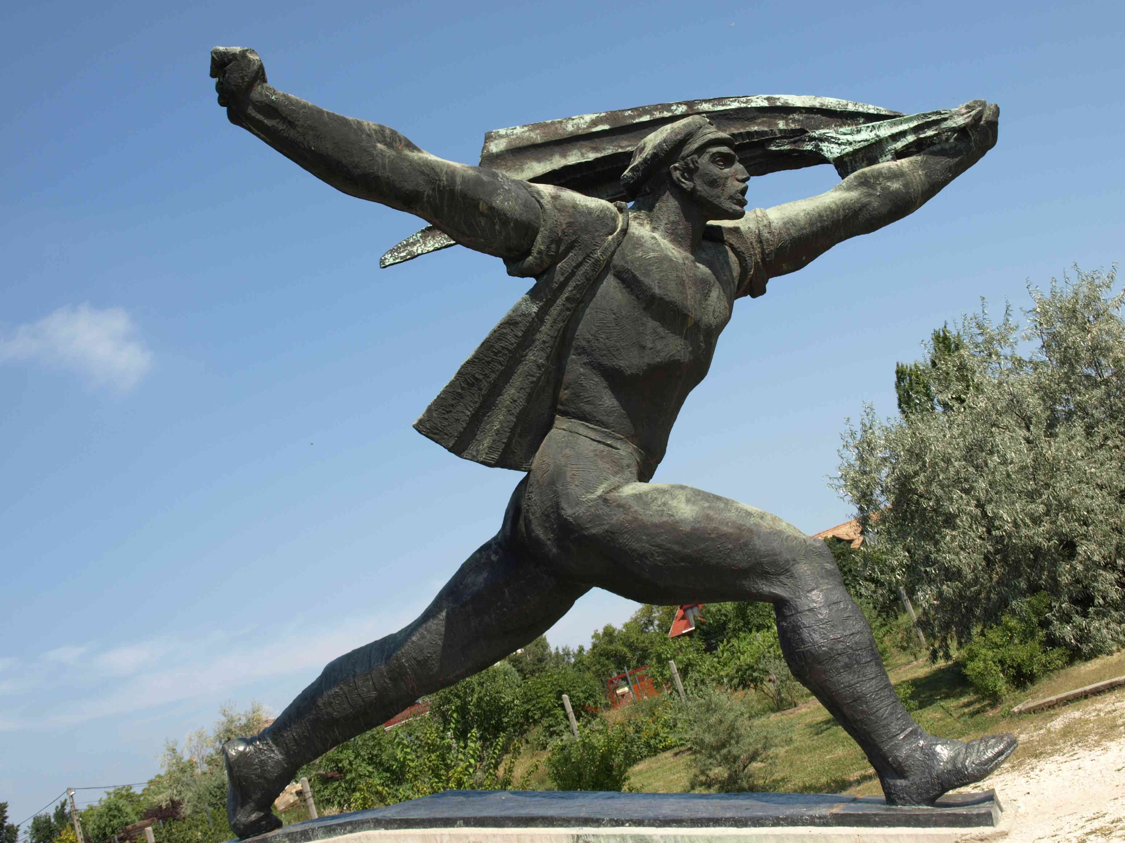 picture taken in memento park, museum of the communist statues in Budapest,Hungary